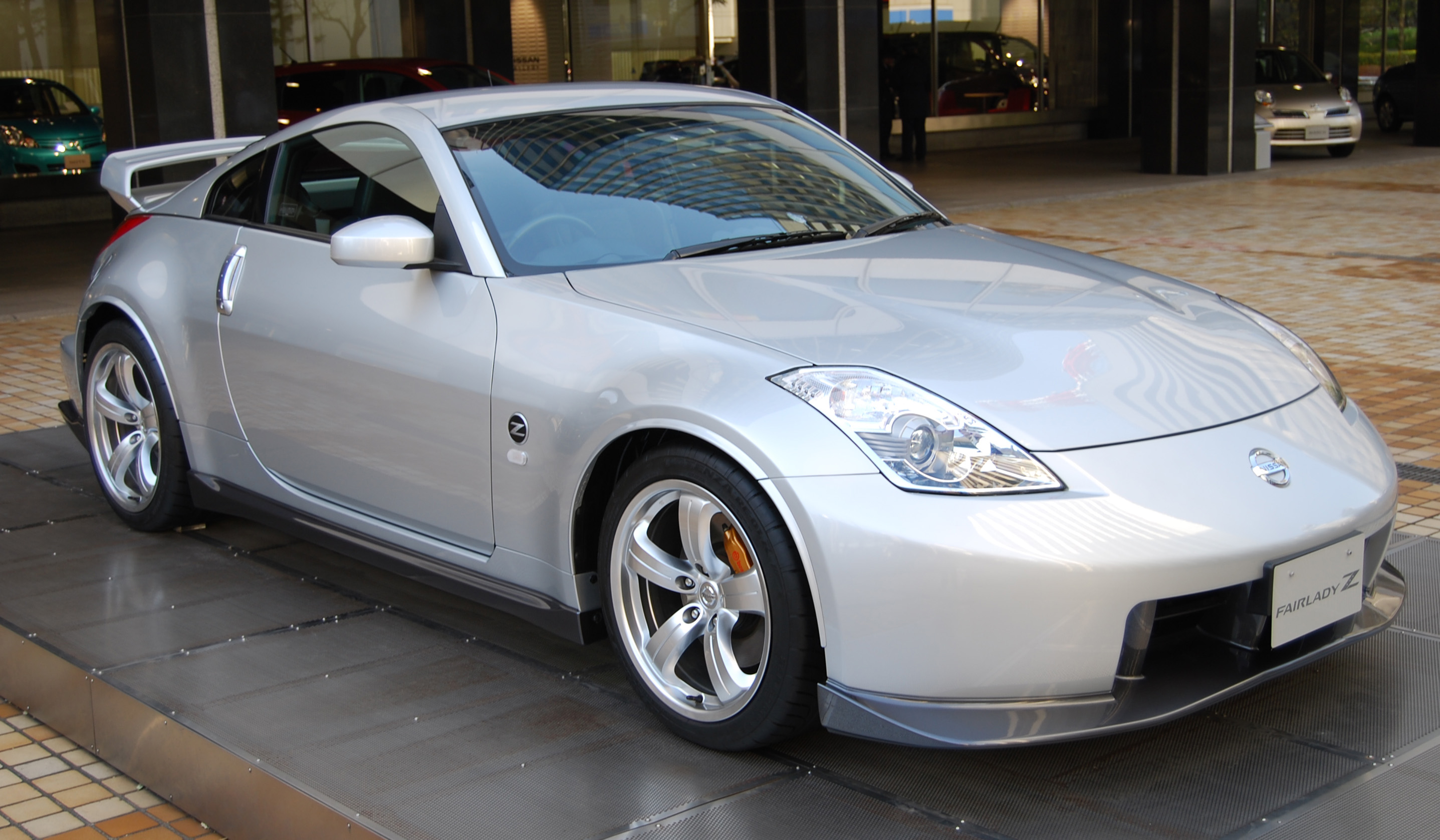 Nissan Fairlady Z Version Nismo photographed in Nissan Gallery (Ginza, Tokyo)